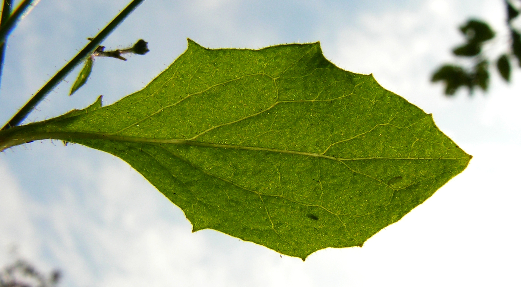 The leaf of Hieracium lachenalii. Moscow region, Russia.